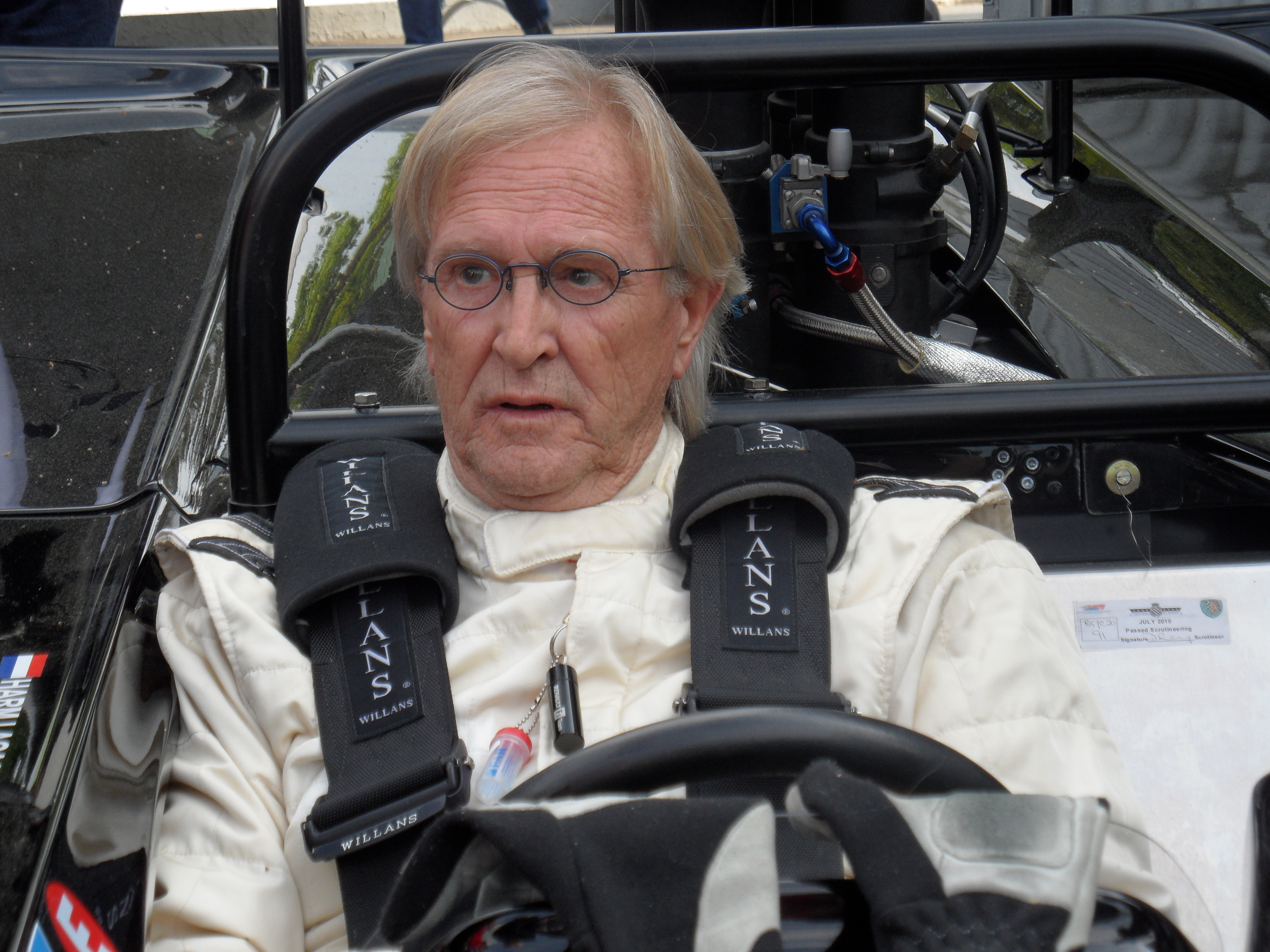 Harm Lagaay at the Nurburgring, 2011